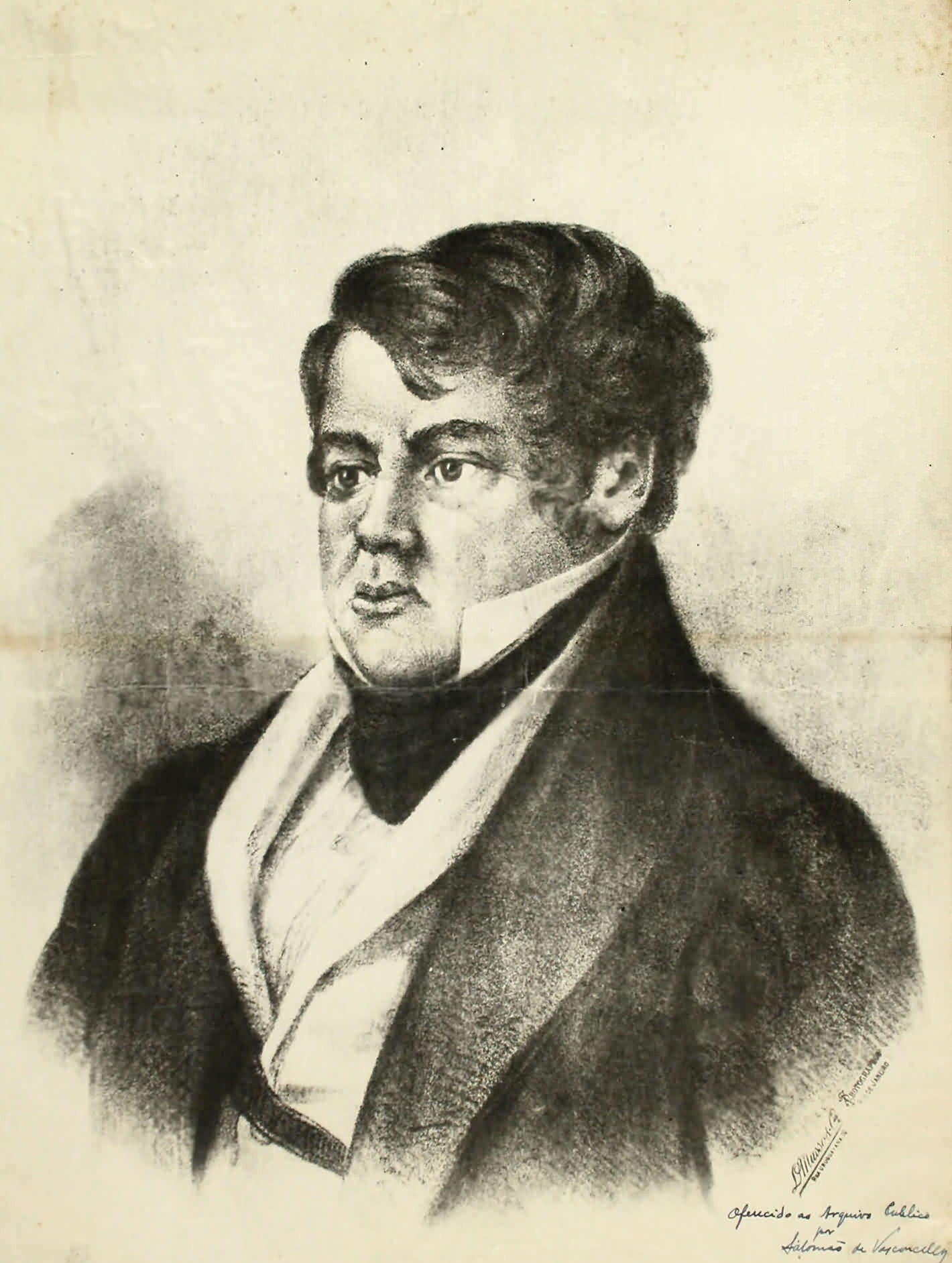 Bernardo Pereira de Vasconcelos, Brazilian politician